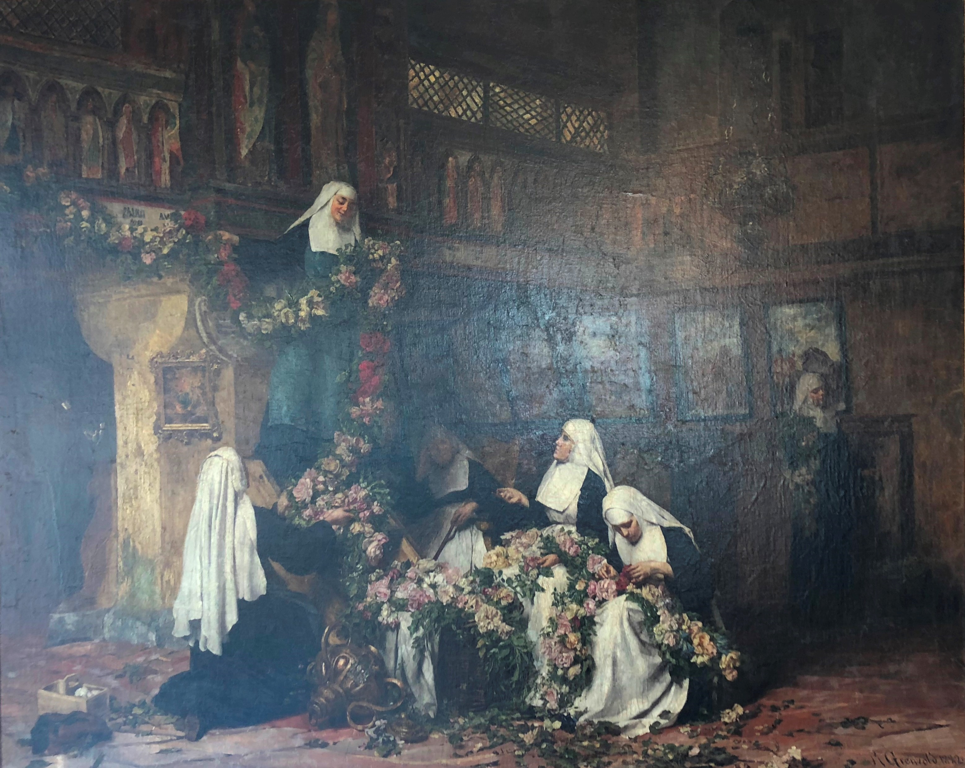 Marcus Grønvold (1845-1929), Norwegian painter, motive from study trip in Italy 1882. Title unknown. Painting in Myren Gård, Kristiansand, Norway